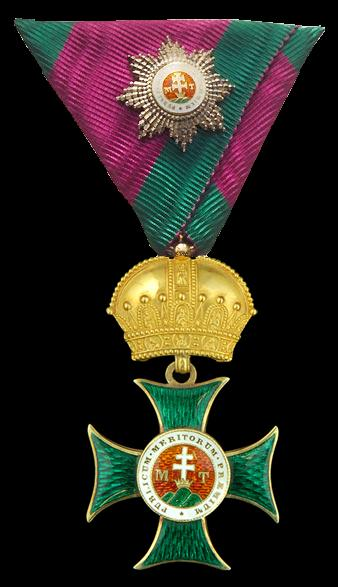 Royal Hungarian Order of Saint Stephen. The Grand Cross "kleine decoration" is the miniature of the Grand Cross breast star, worn on the center of the ribbon of the Knight's Cross. This was authorized for wear on the service dress uniform.